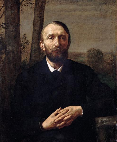 Gemalde von Hans Thoma (1839-1924)/ Staatliche Museen zu Berlin. Conrad Fiedler, 1884